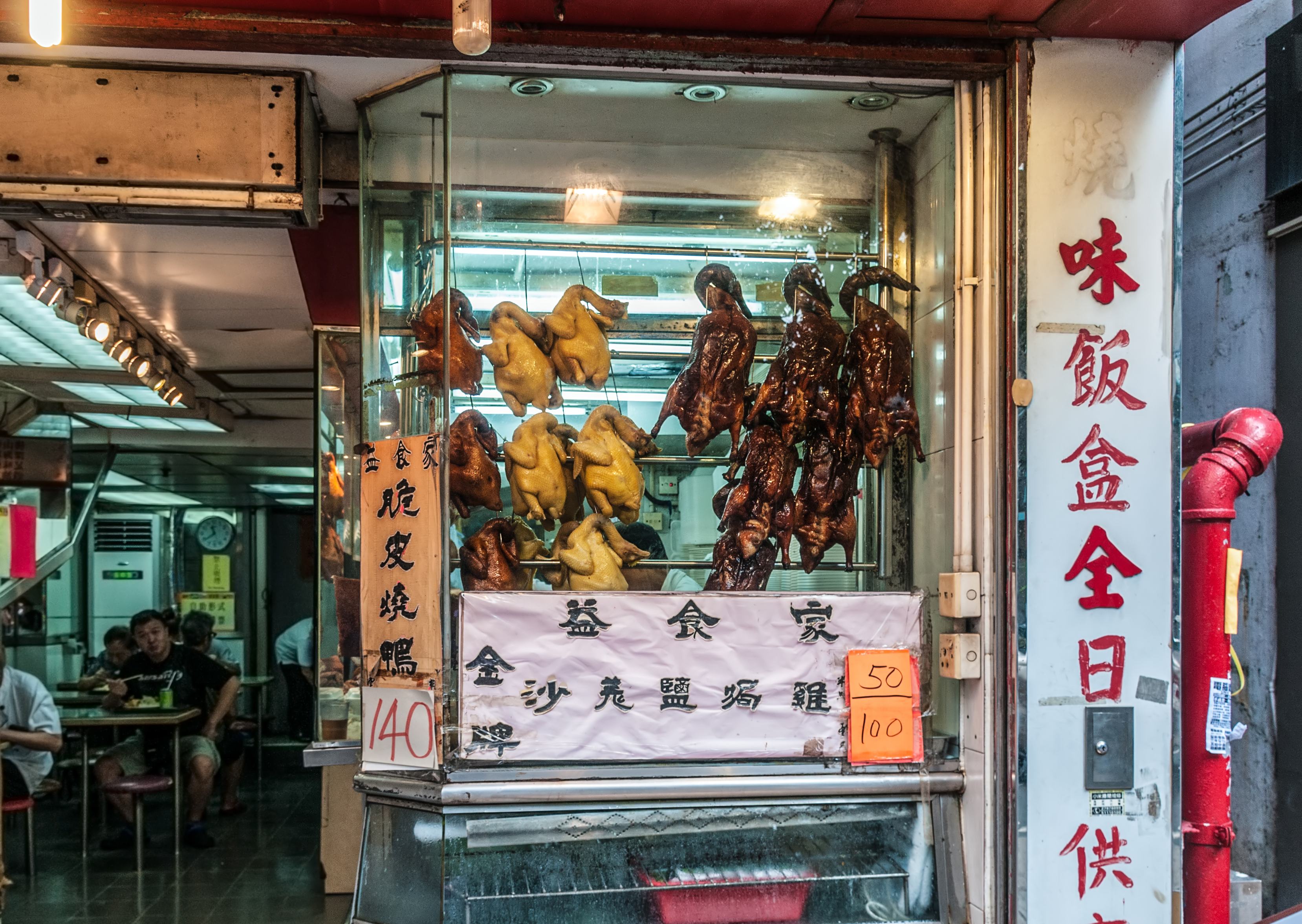 Typical restaurant in Hong Kong